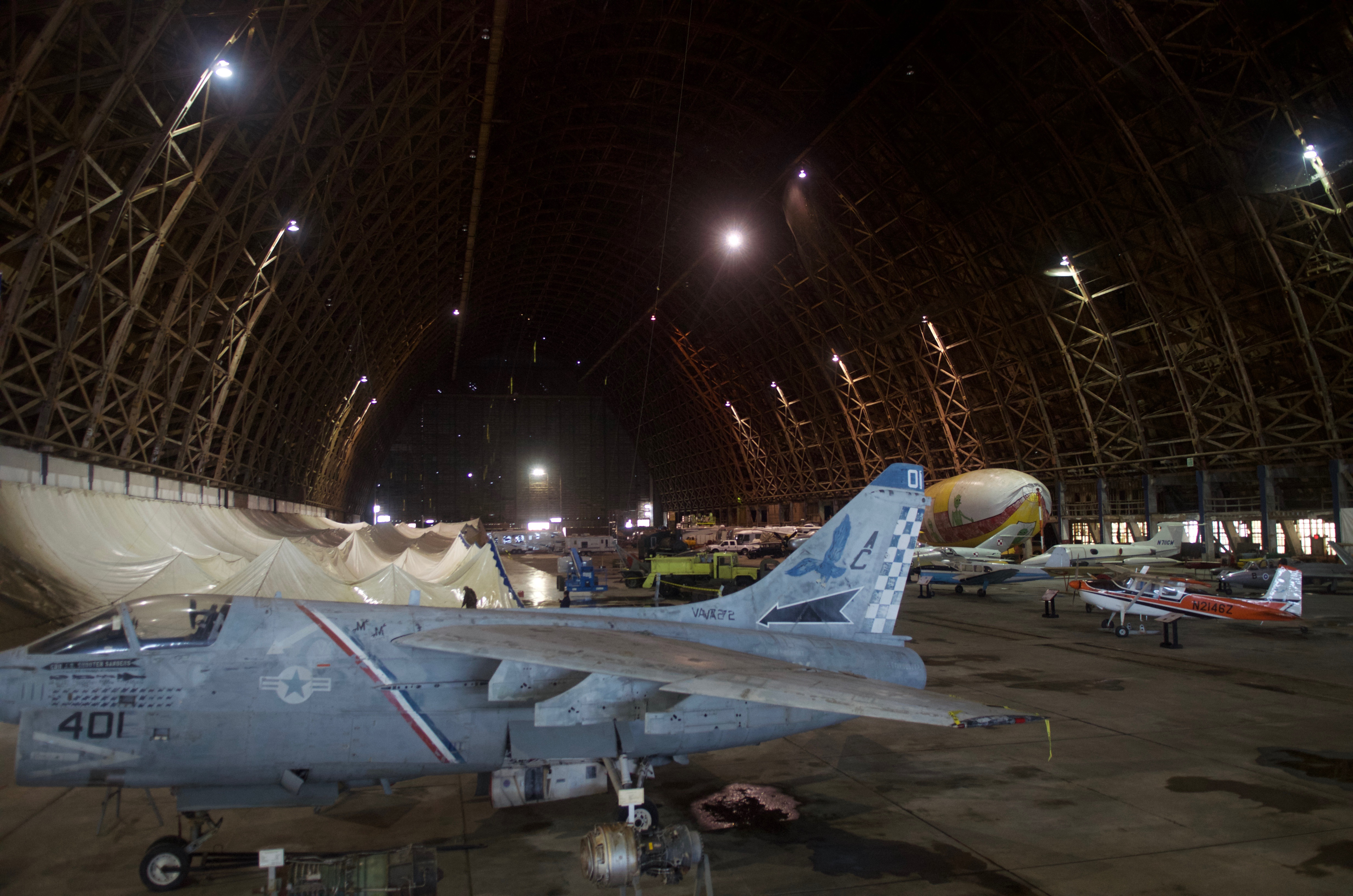 Photo of interior of the Tillamook Air Museum, from 2017.